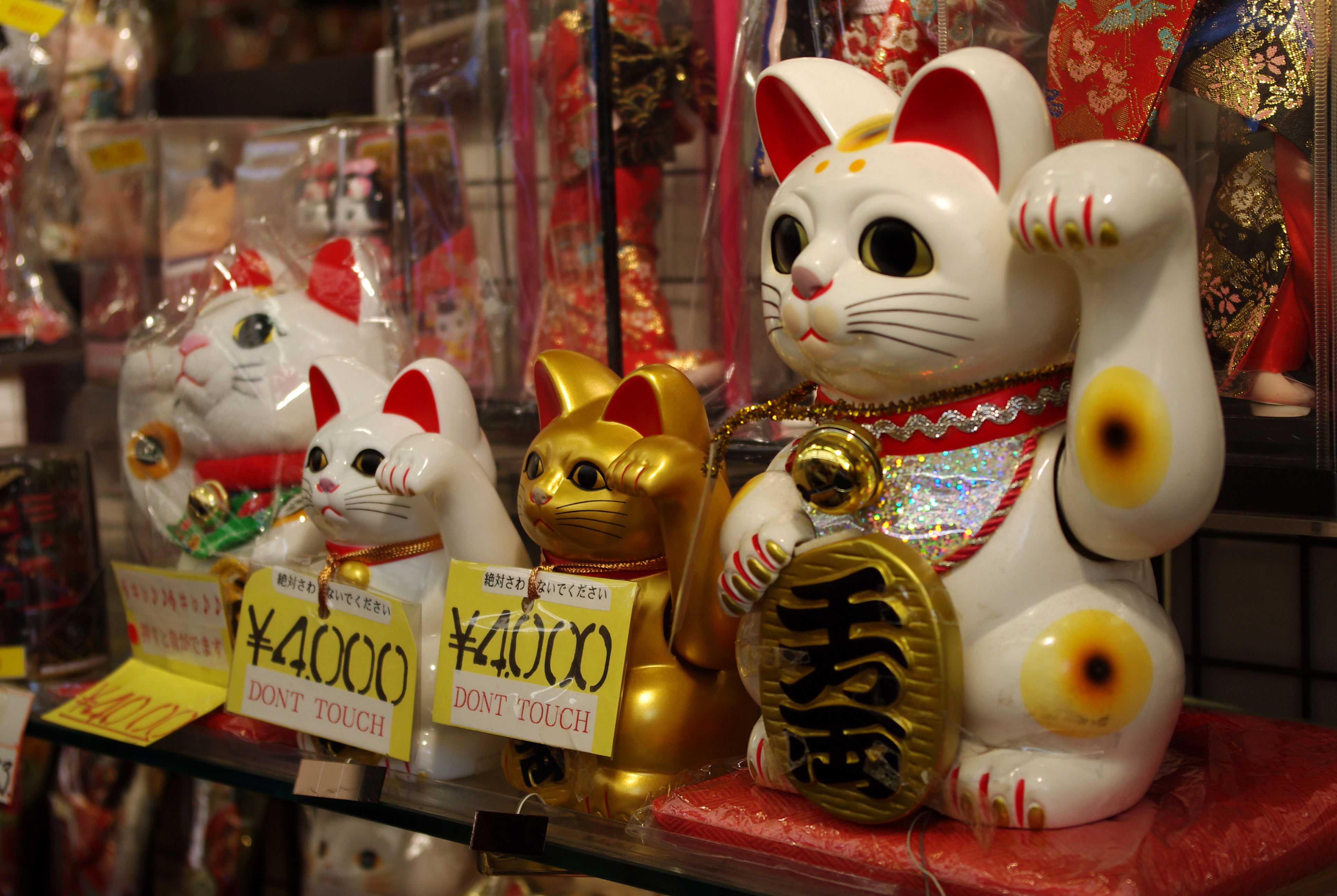 Maneki Neko cats on the market in the Asakusa district of Tokyo